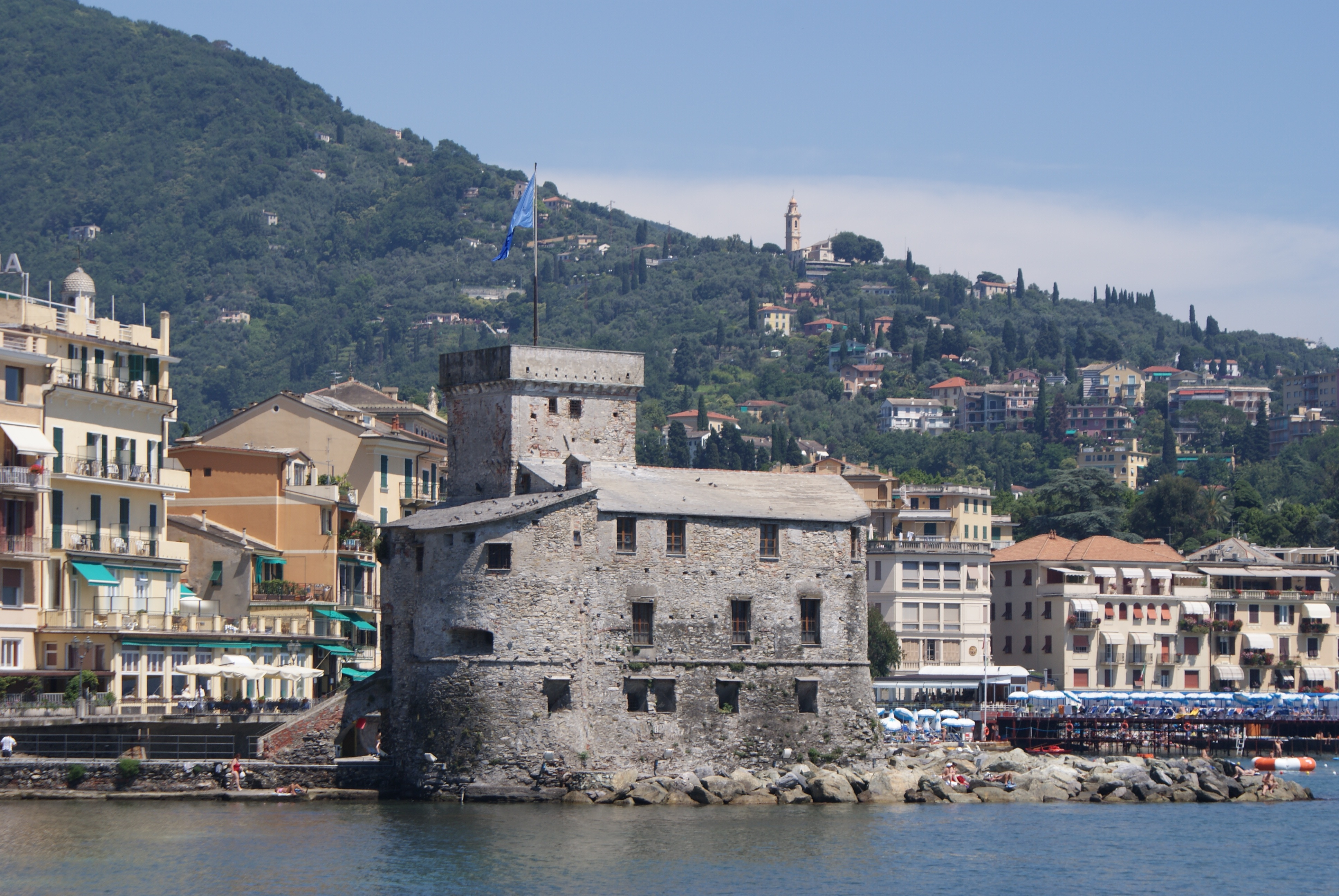 View of the castle at Rapallo from the bay